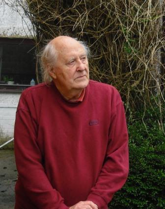 Portrait of Roy Fisher by Ornella Trevisan